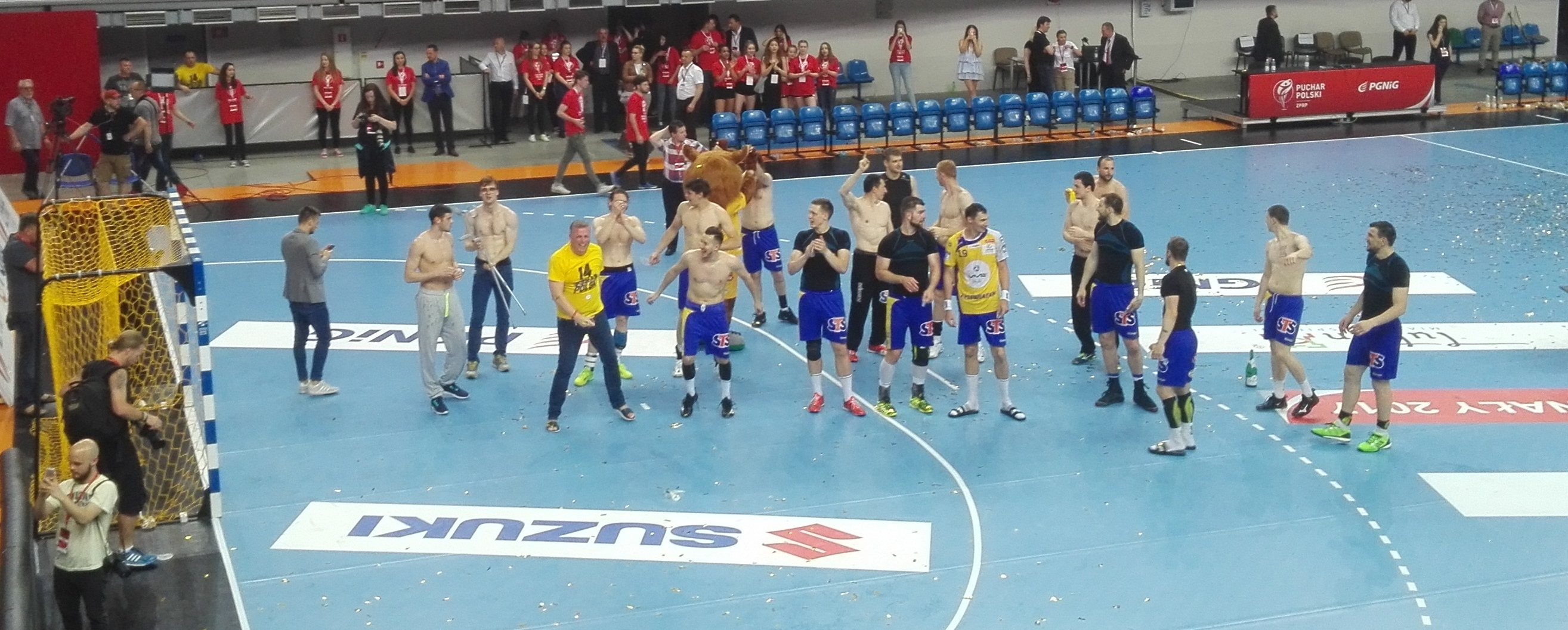 Team Vive Tauron Kielce after the victory over the Wisła Płock in the Polish Cup final in handball in Globus Hall, Lublin.